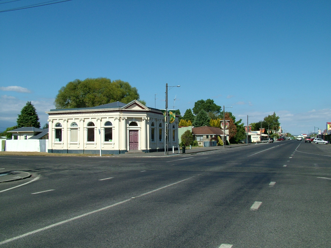 This historic building now houses the radio station Peak FM. Raetihi, New Zealand.